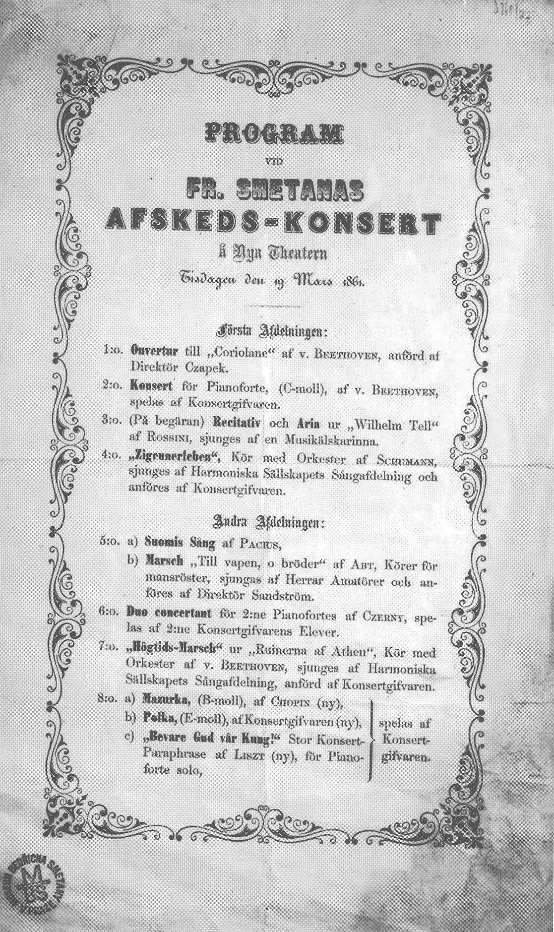 Poster to Bedřich Smetana's farewell concert in Gothenburg, March 19 1861.